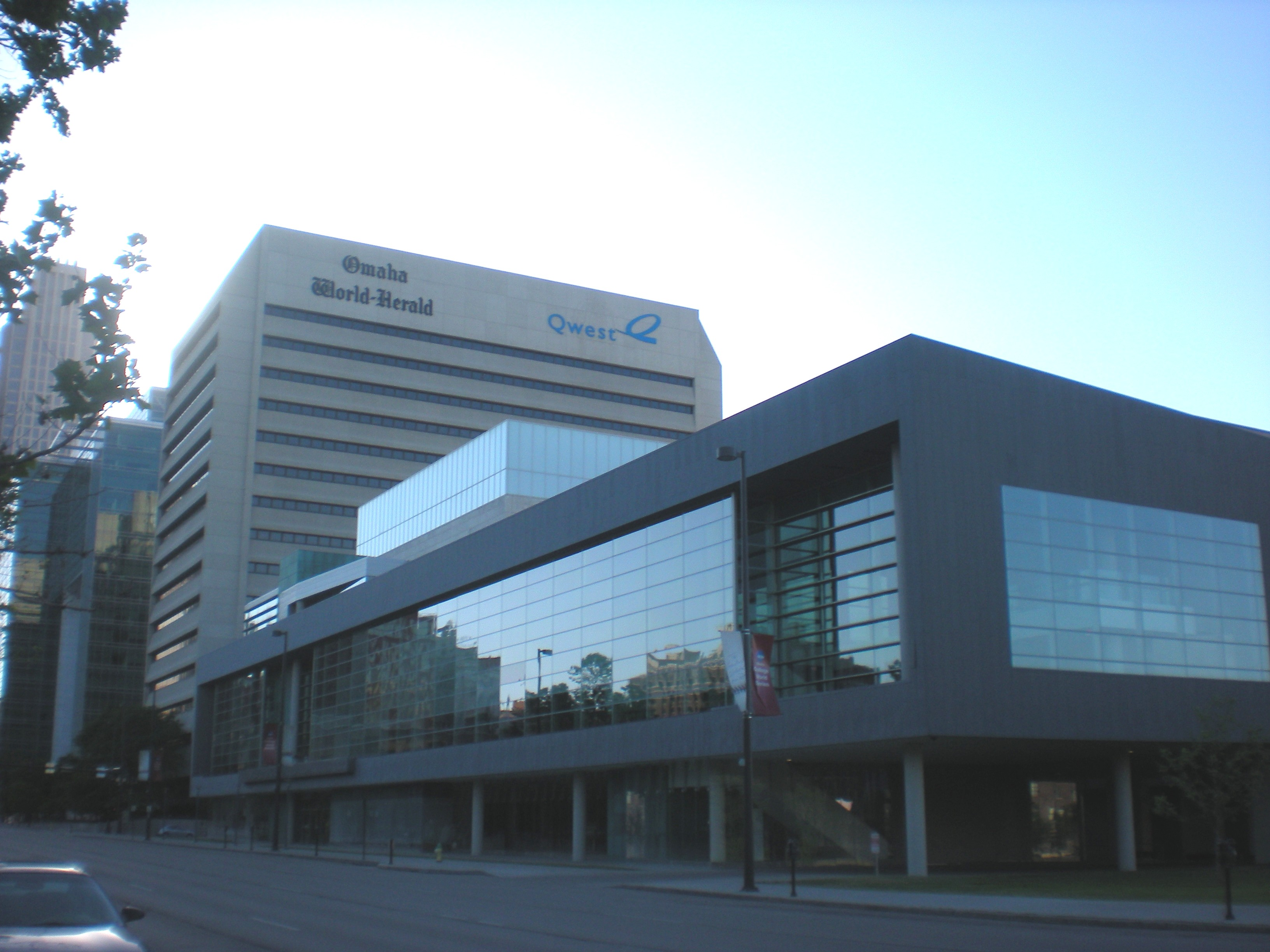 Holland Performing Arts Center in downtown Omaha, Nebraska, United States.